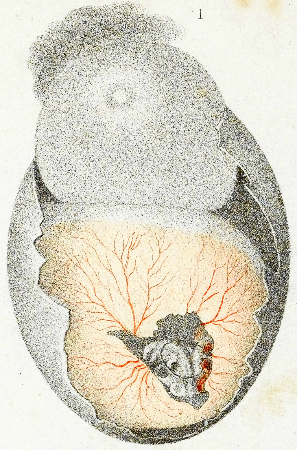 Bird's egg dissected to show embryo within. Drawing by Peter Ludvig Panum